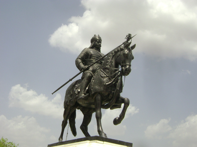 This is the picture of famous - Maharana Pratap Udaipur,India